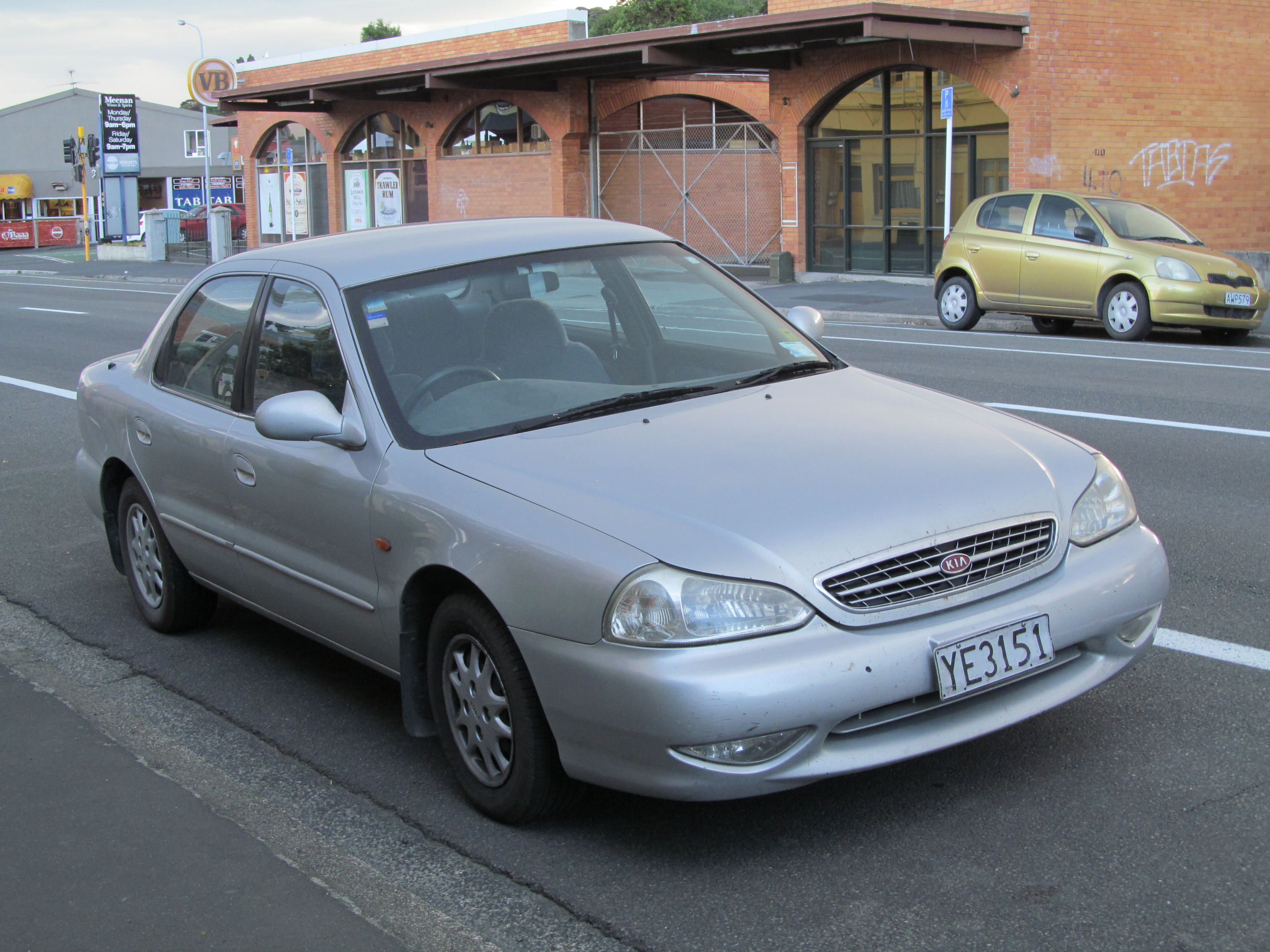 This car is only 16 years old, but I felt it was worth a photo simply because I have never seen another. I have several NZ car magazines from 1998/99 which feature ads for these Hyundai Sonata twins, but it appears the Sonata outsold it 10 to 1. Both vehicles were bland, lifeless early Korean offerings, but I feel the Sonata had the edge slightly styling-wise. Apparently these are based on the Mazda 626, which makes sense given Kia's long-running rehash of the Mazda 121 as the Pride. This model was known as the Clarus in Europe.